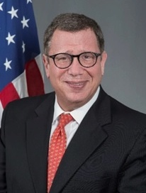 Irwin Goldstein official photo